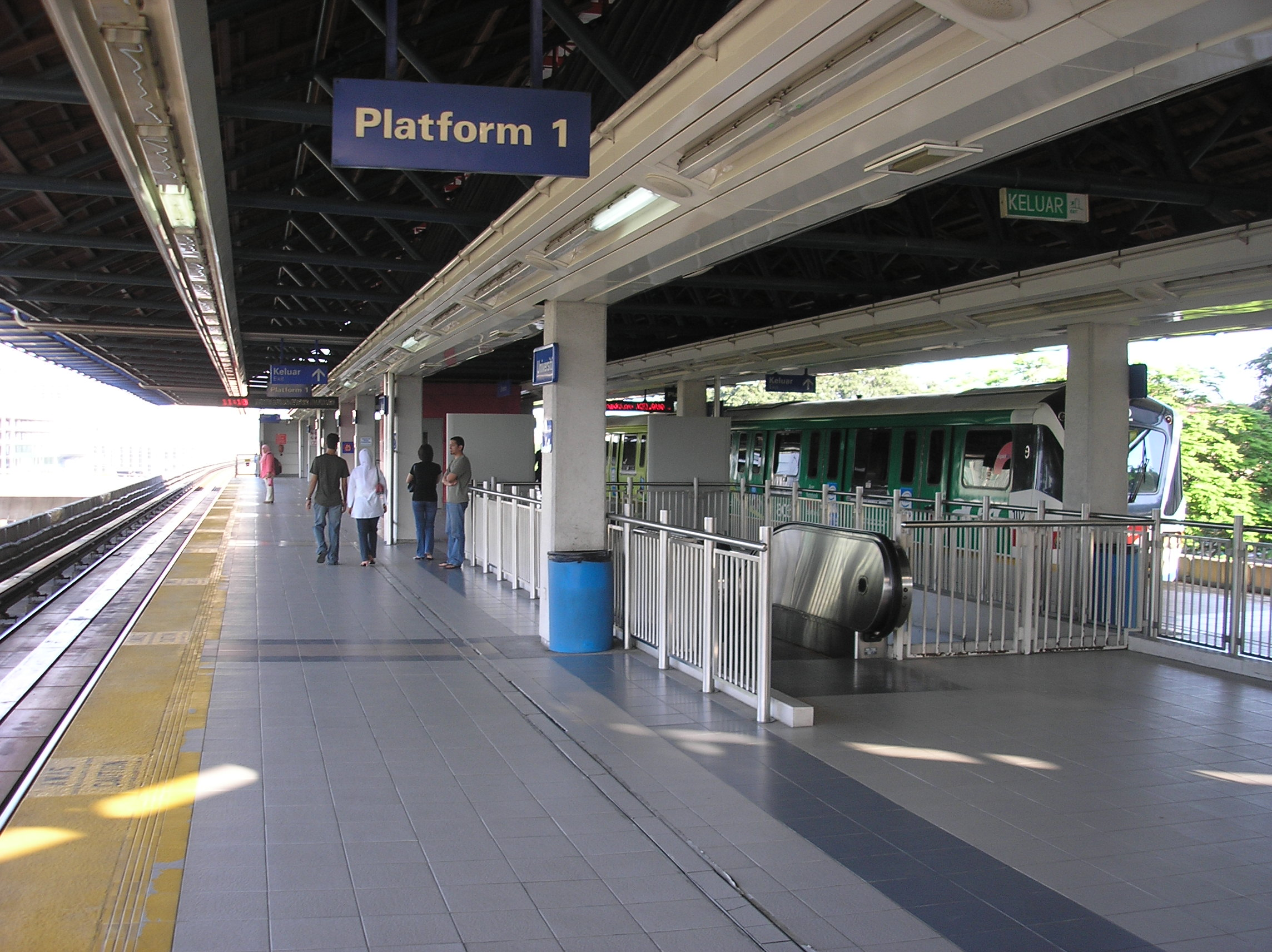 A platform view (towards the east) of the Universiti LRT station (Kelana Jaya Line) in Kerinchi, Kuala Lumpur, Malaysia.